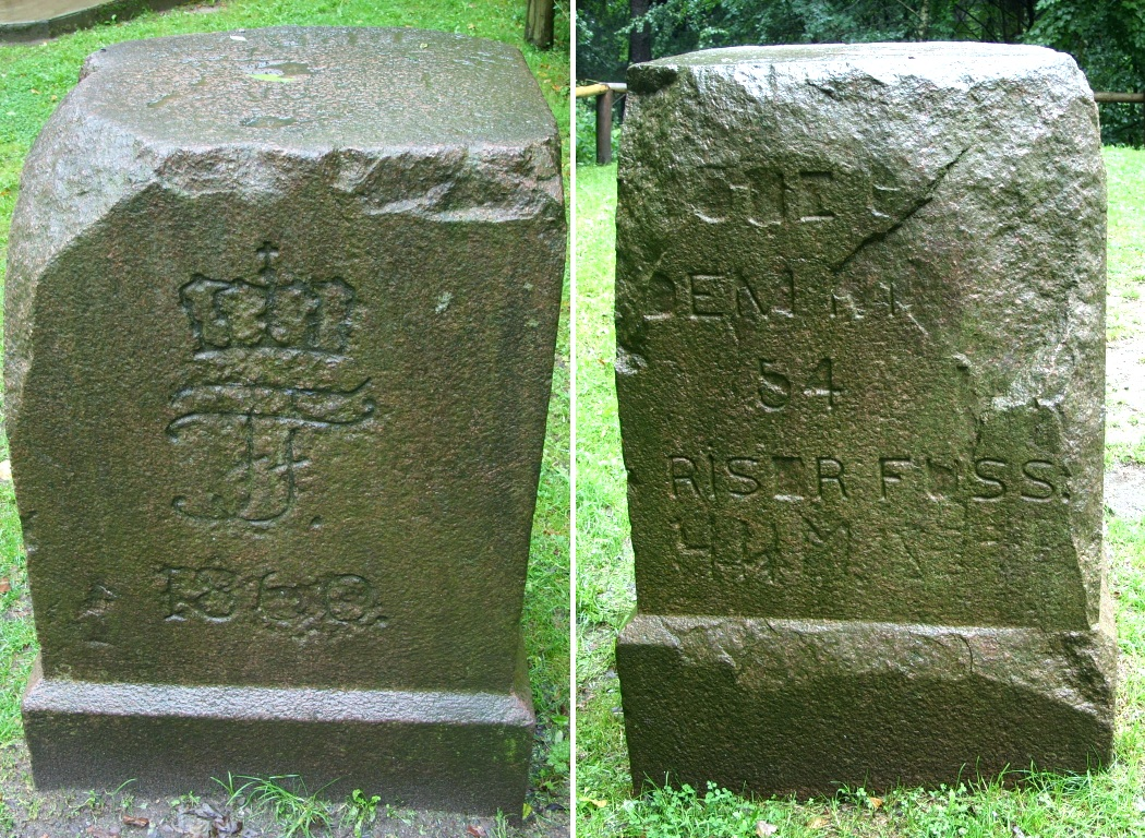 Trig point ("FF-stone") from 1860 at hill Ruhner Berg (176,6 m) near Marnitz, Germany